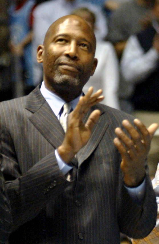 Cropped from Image:JordanSmithWorthy2.jpg Description